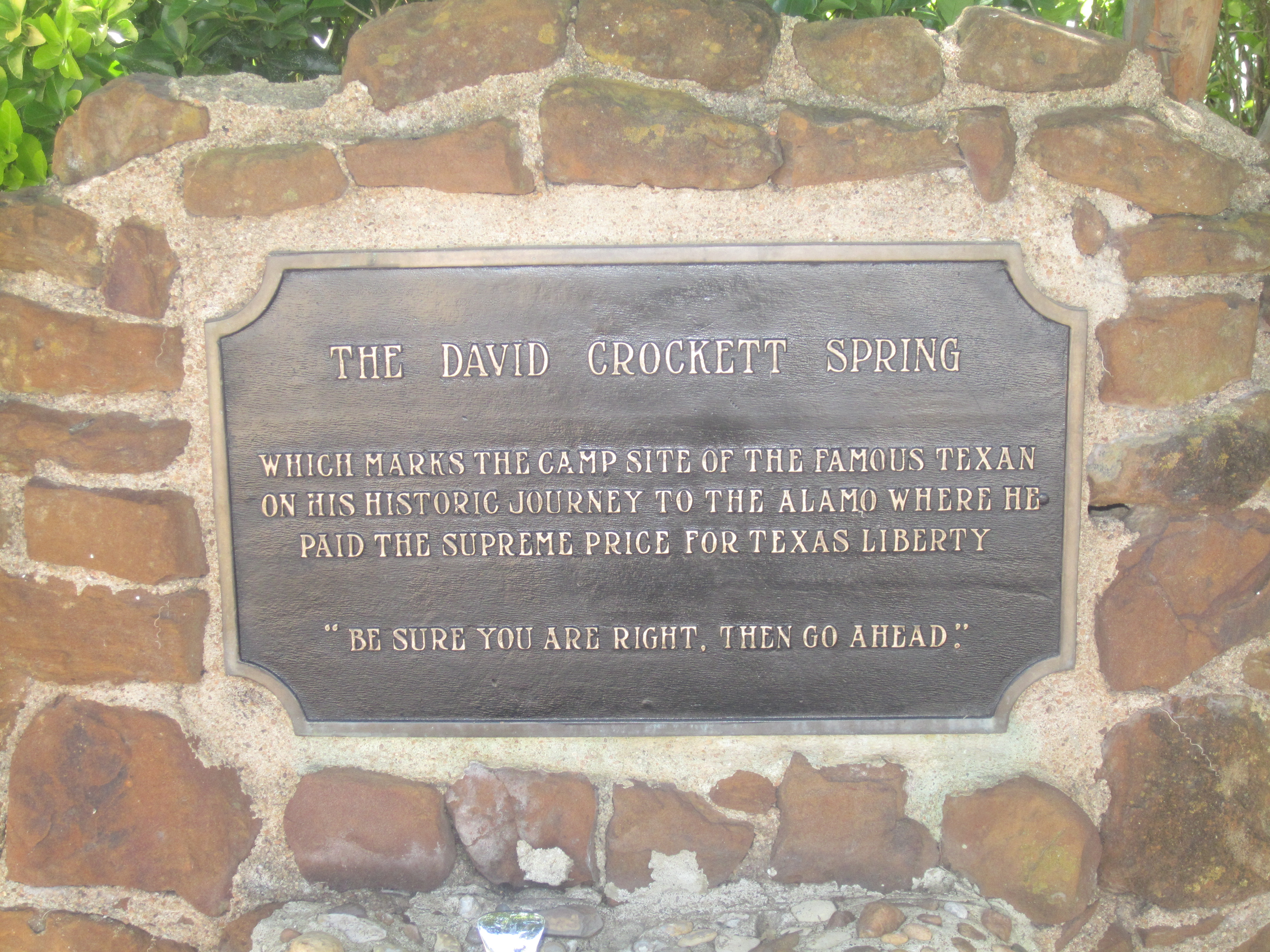 David Crockett Spring sign, taken with Canon camera in Crockett, TX.